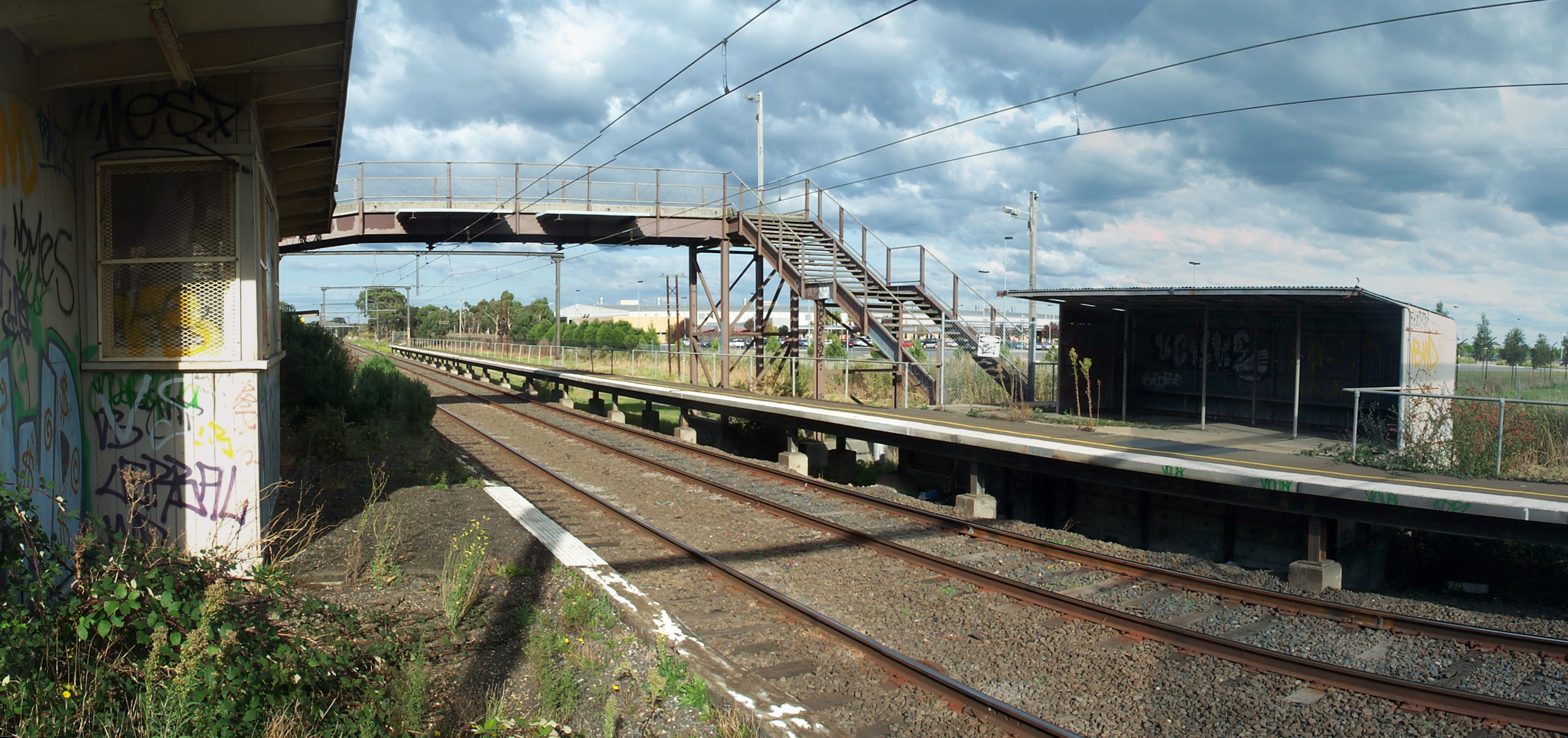 General Motors railway station, view from 'down' platform